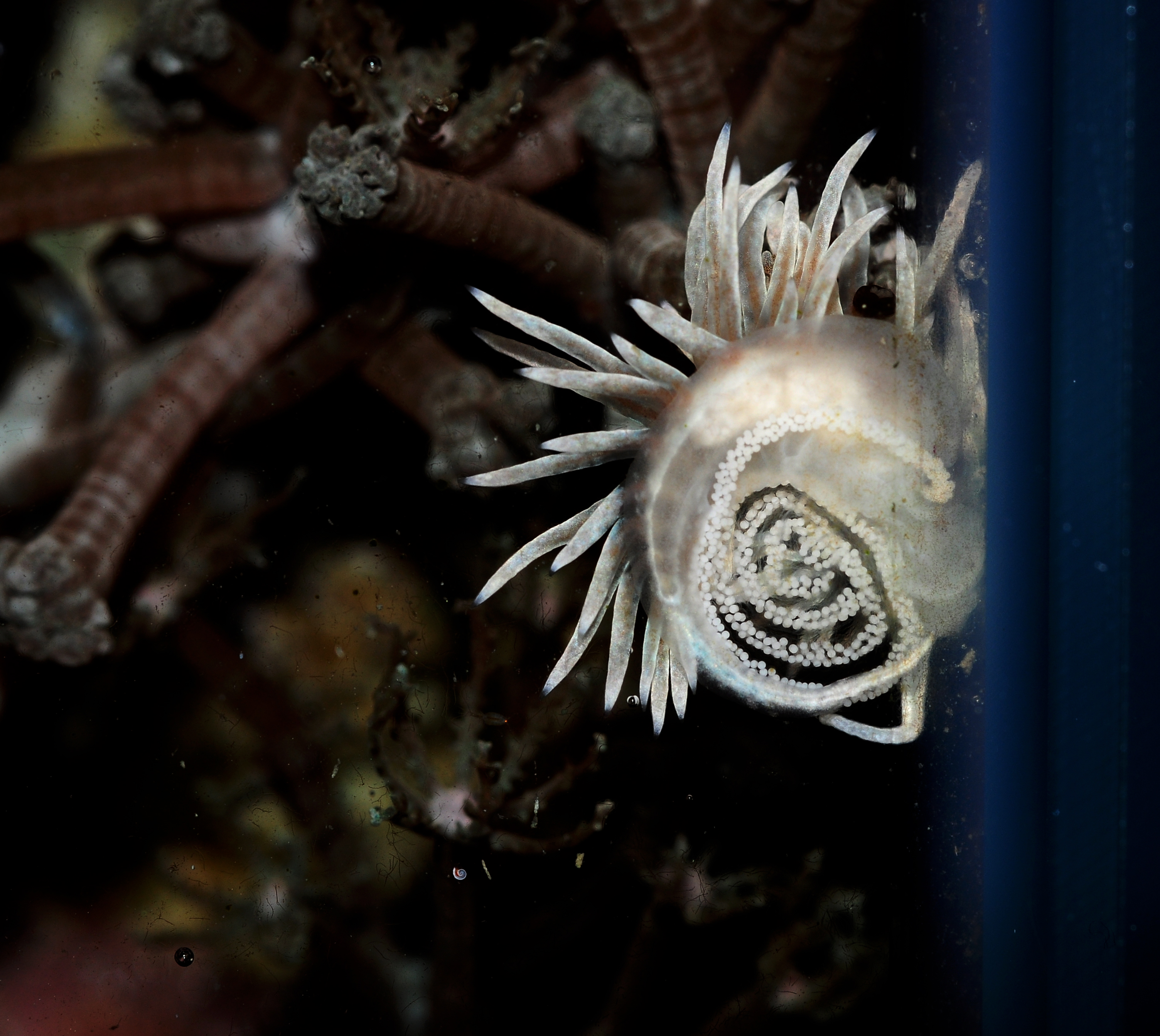 Berghia stephanieae laying eggs in the author's aquarium. Note the typical spiral-shaped pattern in which the eggs are deposited onto a hard surface, in this case the front panel of the aquarium.